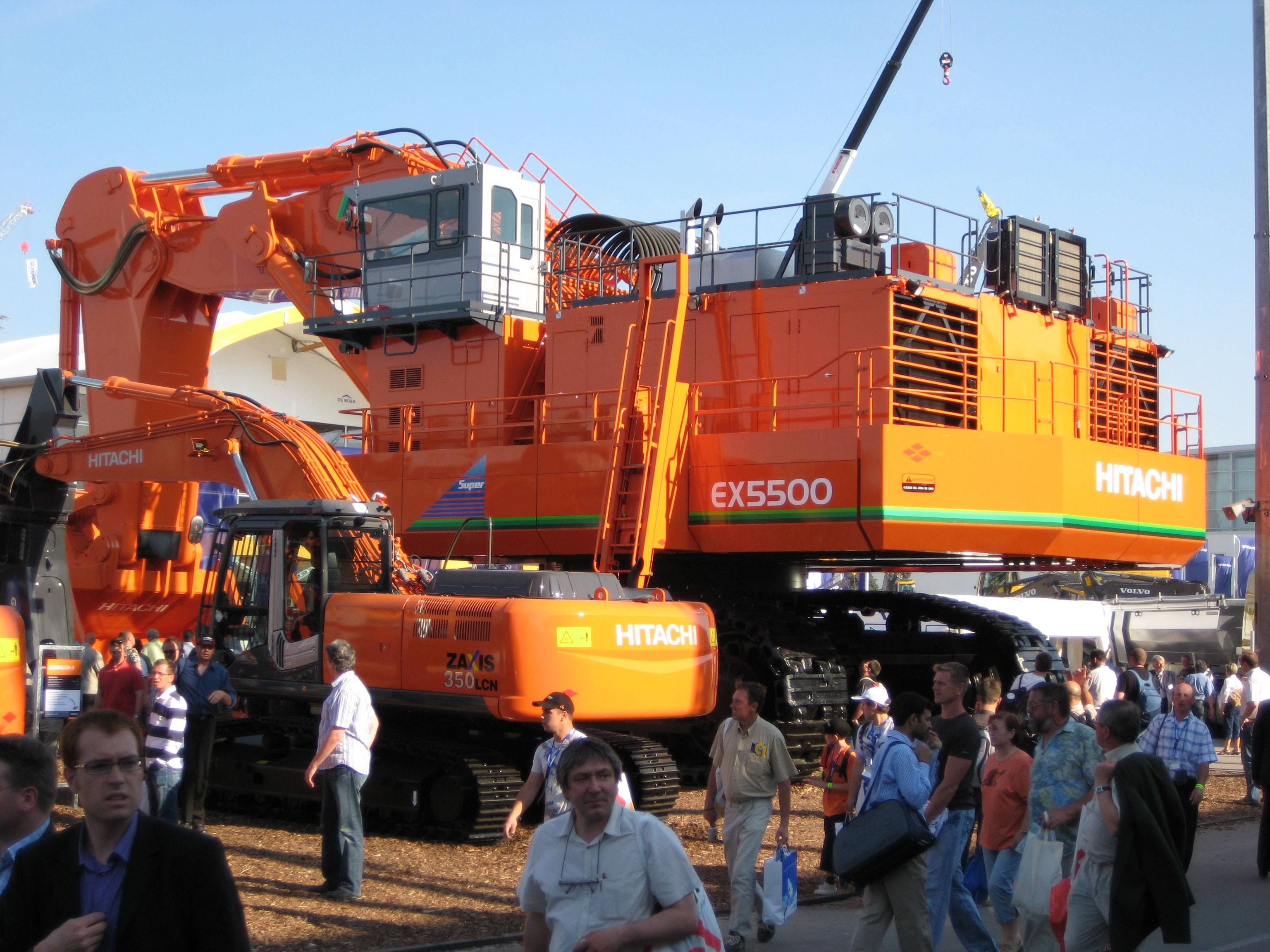 BAUMA 2007, Hitachi EX5500